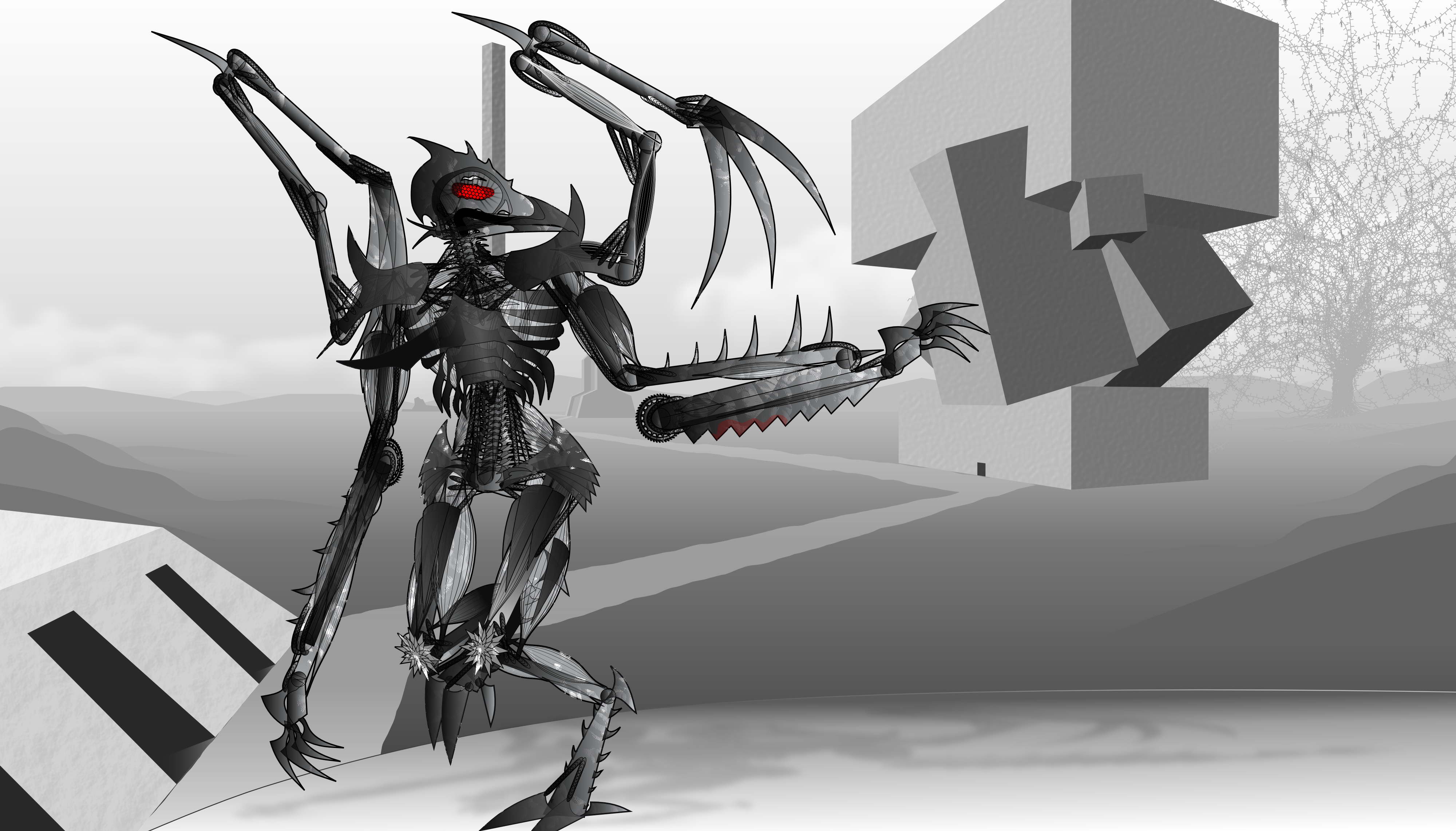 cf. File:Shrike time tombs.svg